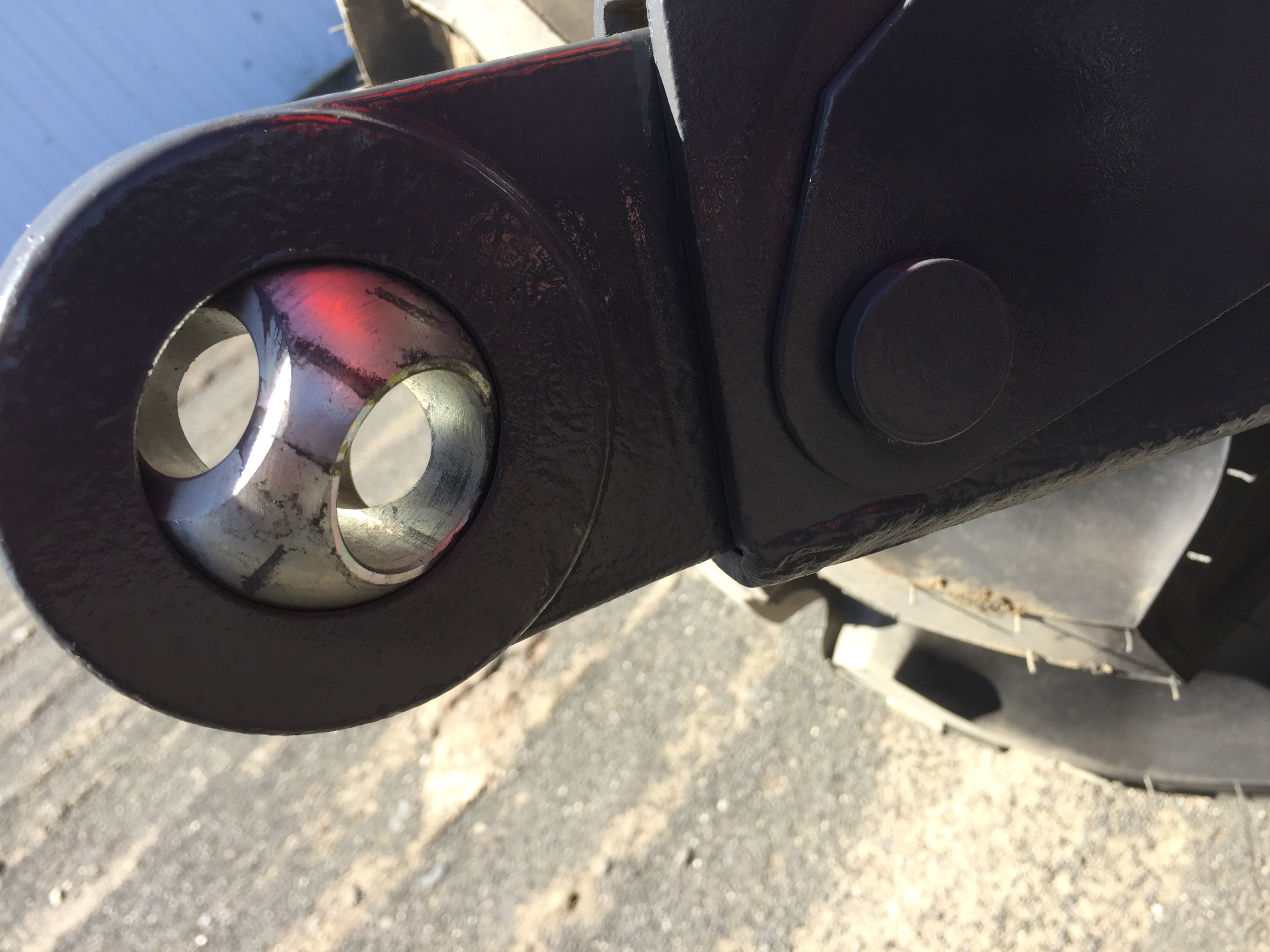 Closeup of category I/II 3-point lower linkage ball